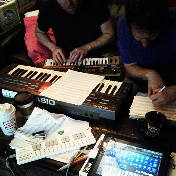 “Coffee and synths”